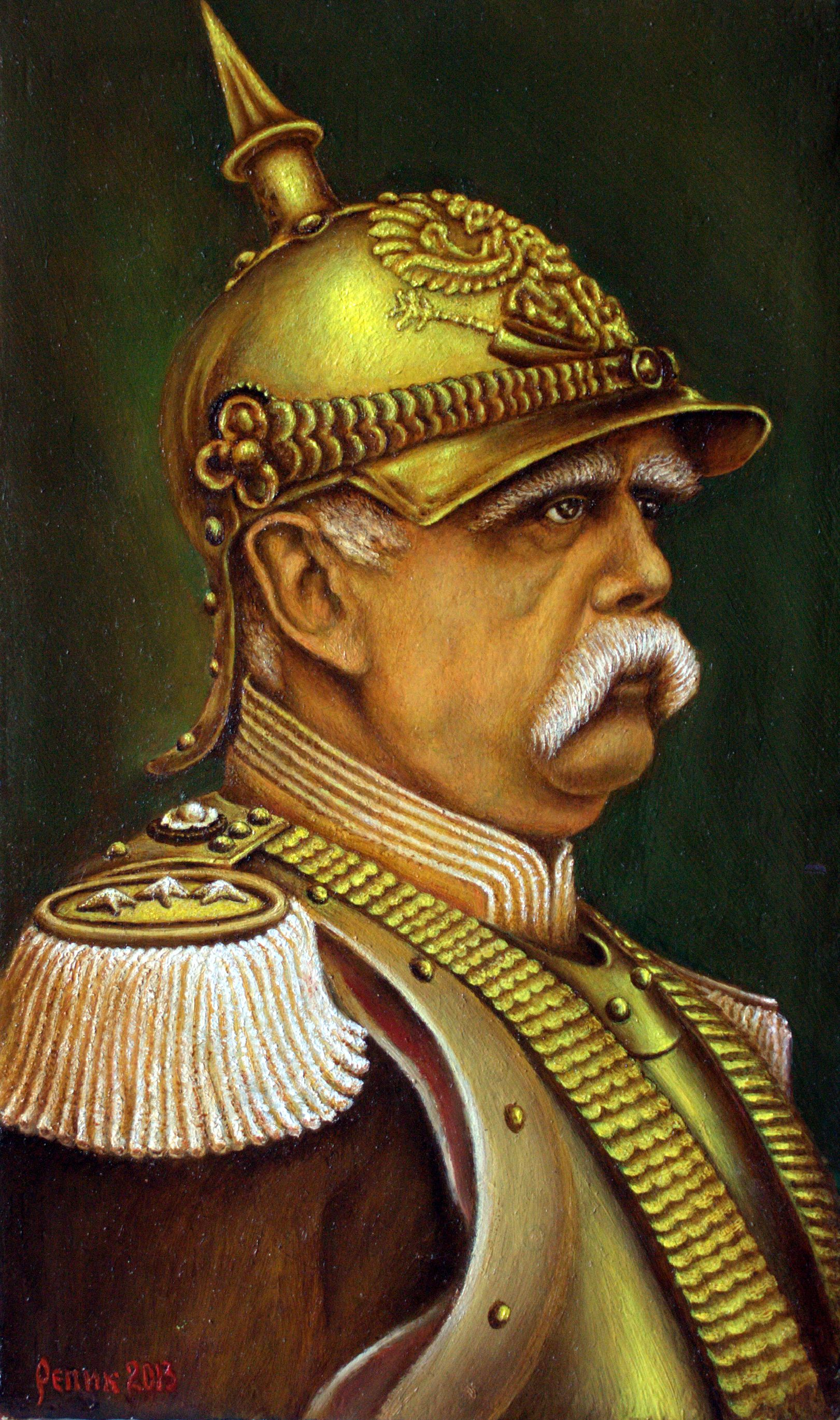 Nikolay Repik. Modern fantasy portrait of Otto von Bismarck, 2013.